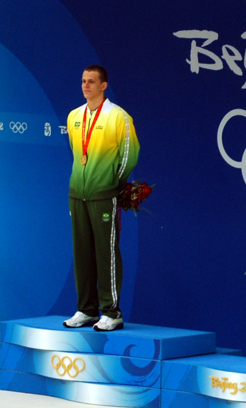 Brazilian swimmer César Cielo Filho on the podium of the 50m, August 16th 2008 at the Watercube, Beijing